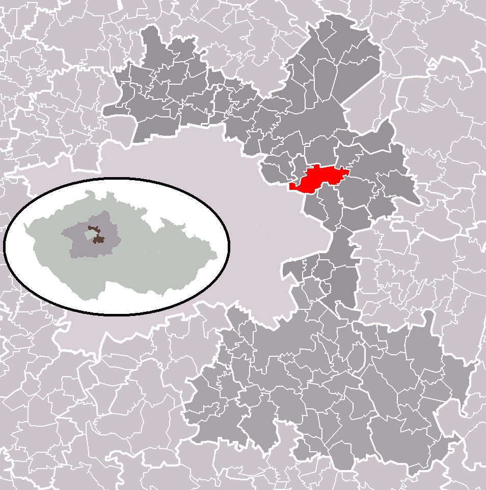 Location of Zeleneč municipality within Prague-East District and administrative area of Brandýs nad Labem-Stará Boleslav as a Municipality with Extended Competence.